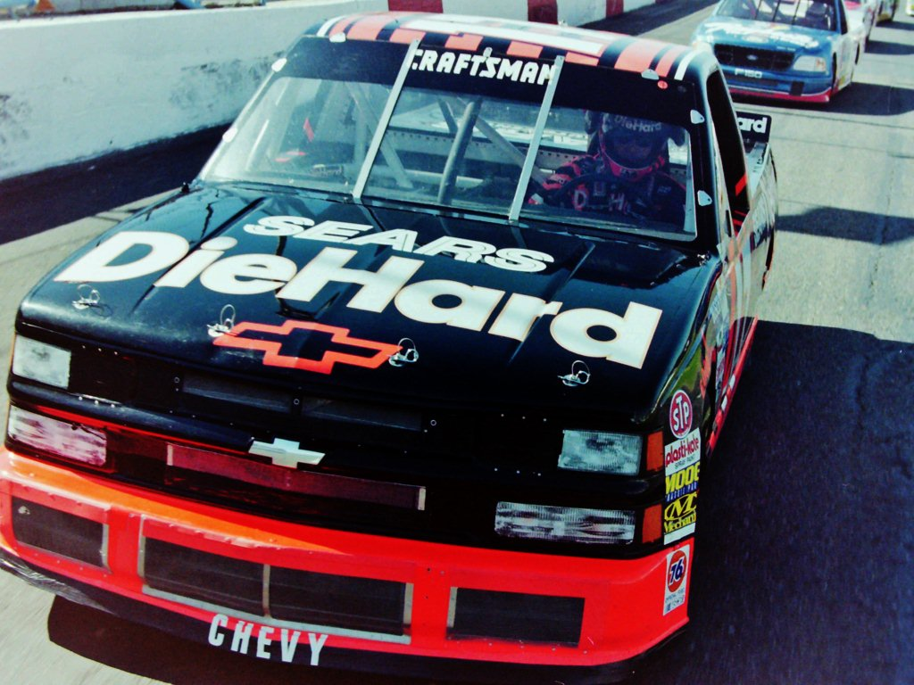 Rich Bickle lines the DarWal, Inc. No. 17 truck up for the start of the NASCAR Craftsman Truck Series Dodge California Truckstop 300 at Mesa Marin Raceway, October 12, 1997.